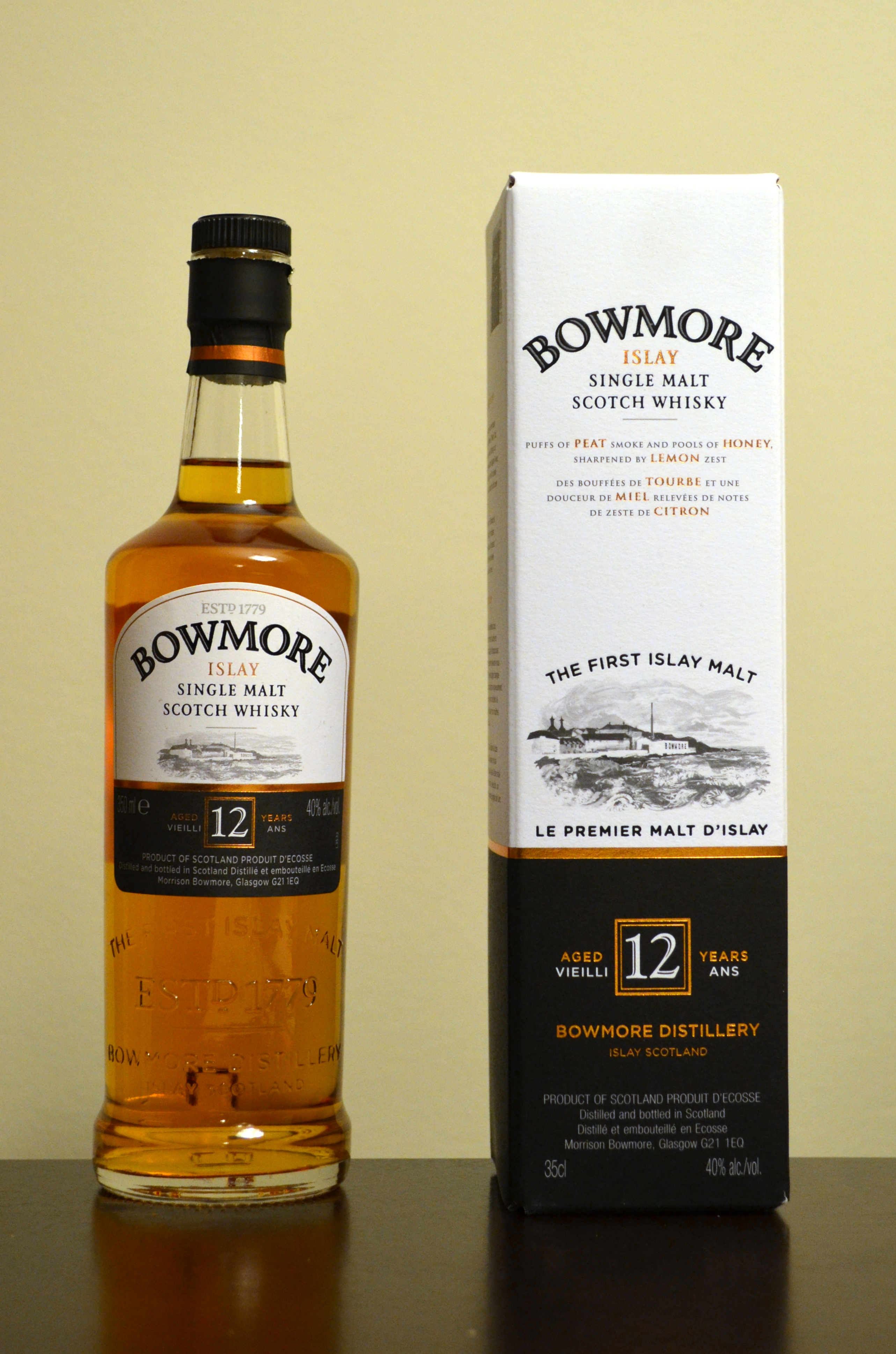 12 yrs Bowmore islay single malt scotch whisky 350ml